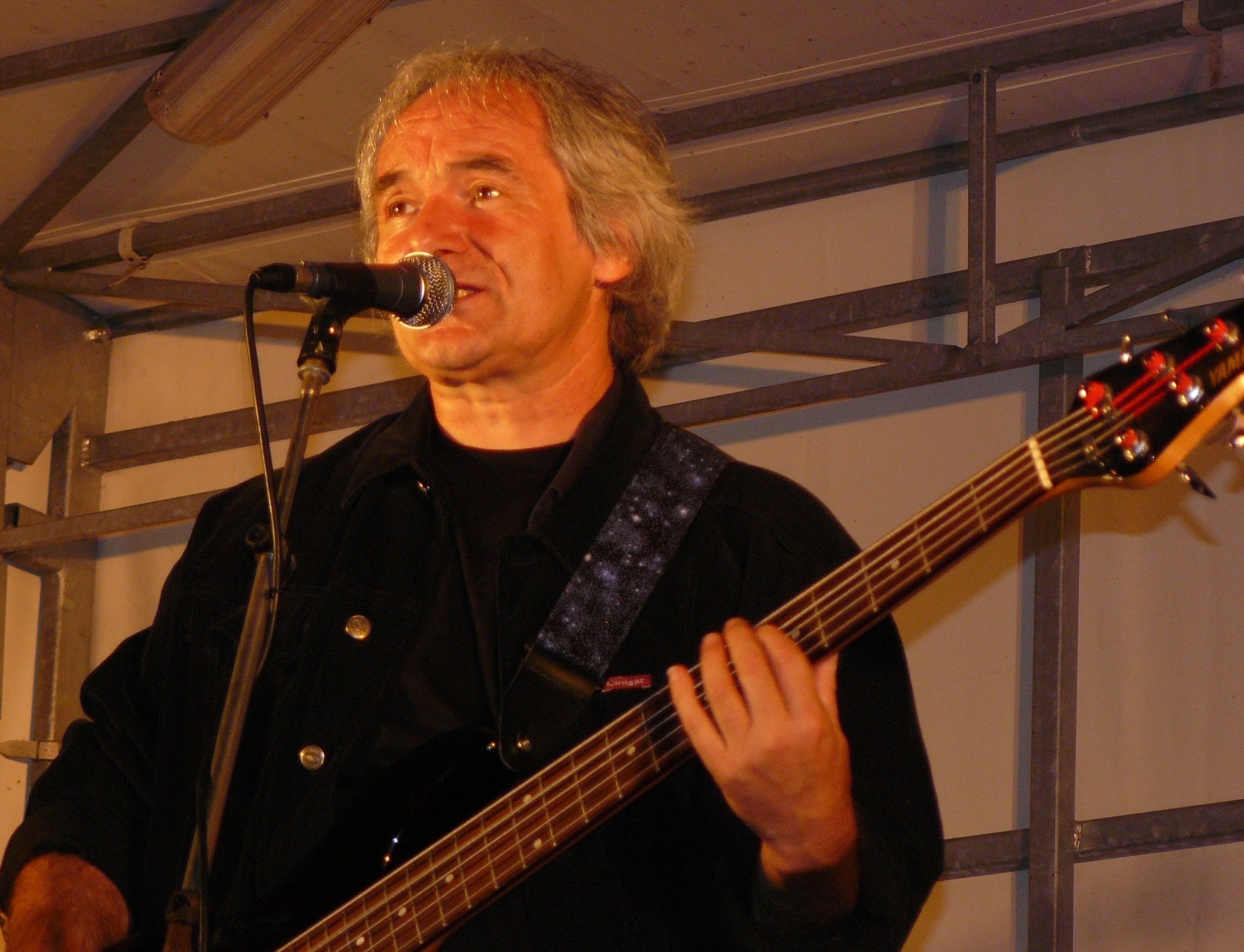 Gerard Jaffrès live on the port Locmariaquer